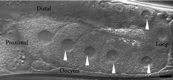 The Nucleolus of Caenorhabditis elegans Fig:1.b. Micrographs of adult worm structures. A section of a gonad arm under the light microscope. Relative positions in the gonad are indicated as distal, loop, and proximal. White arrowheads indicate the nucleoli in the corresponding cells: germ cells, and oocyte. Note that the nucleolus in the -1 oocyte is absent, and that the diameter ratio of nucleolus to nucleus decreases from germ cells to oocytes. The scale bar represents 10 μm.